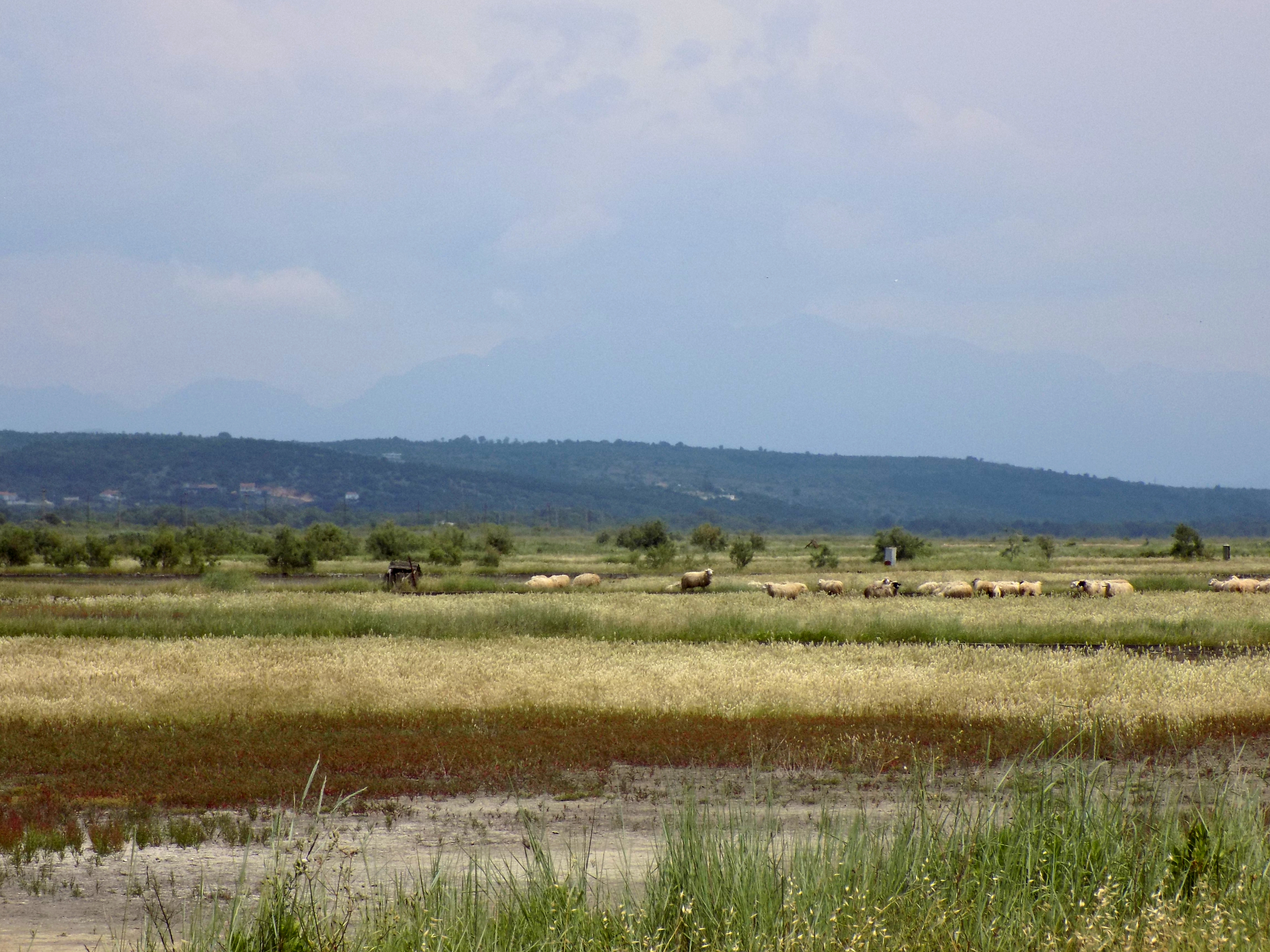 Ulcinj Salinas, important bird area - sheep in the saltpans